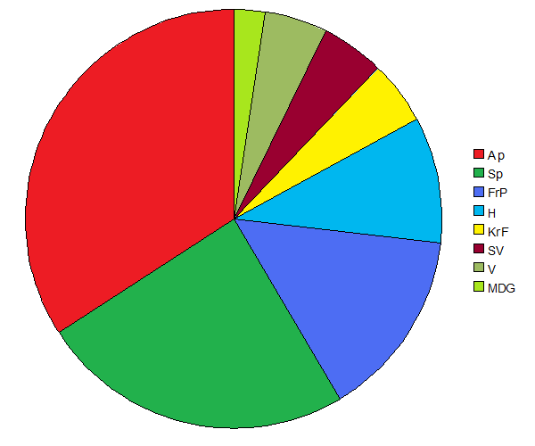 Distibution of the municipal council of Stjørdal in Norway for the period 2007–2011.